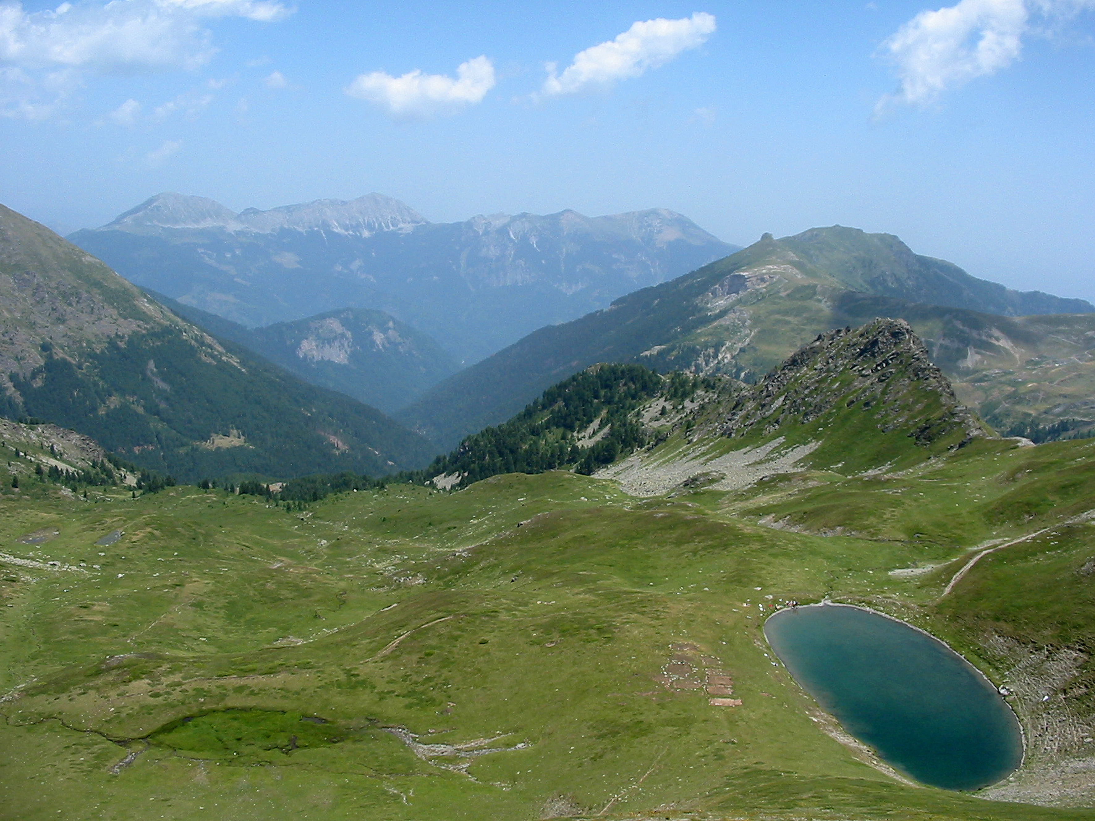 Tropoja Lake in Juniku Mountain